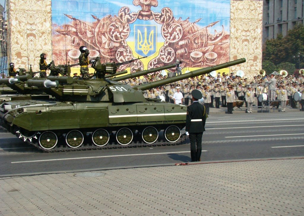 Ukrainian T-64 tanks during the Independence Day parade in Kiev, Ukraine in 2008.